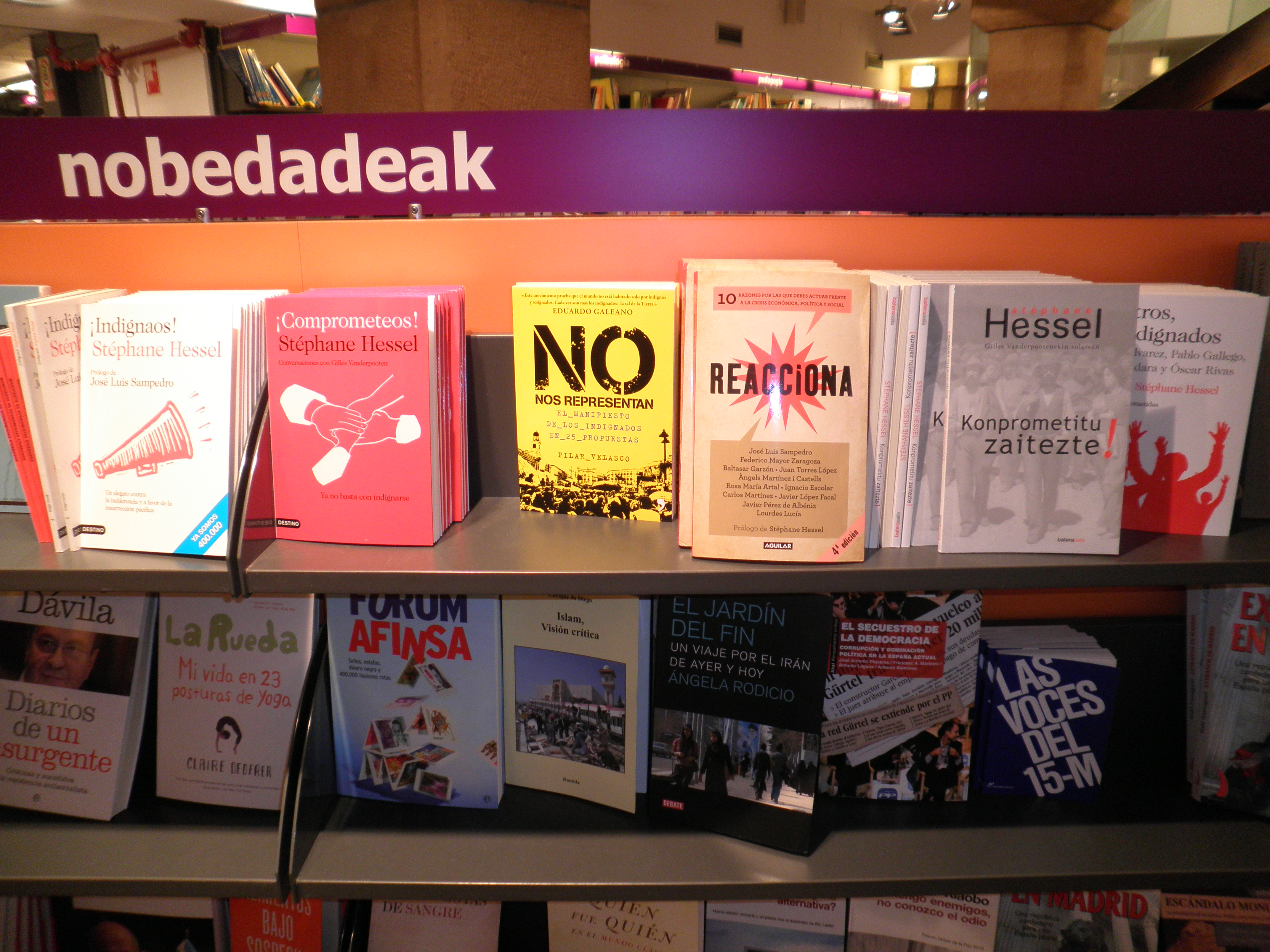 Display for sale of books about 15-M movement in Elkar bookshop, Alde Zaharra, Donostia.